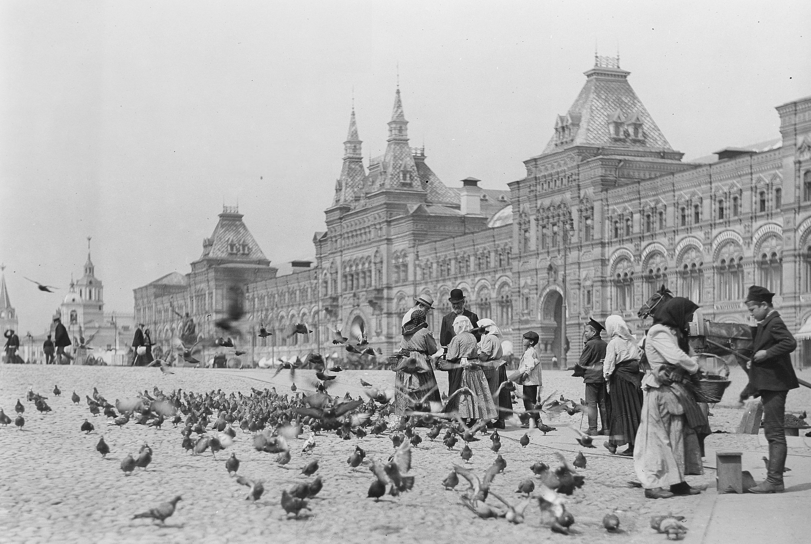 Red Square in Moscow. Upper Trade Rows.